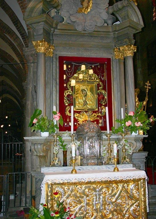 St. John Cathedral Church in Wrocław